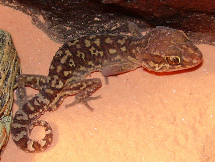 Personnal picture of user Harlem (on fr) of its own animal, a Paroedura pictus (a gecko).